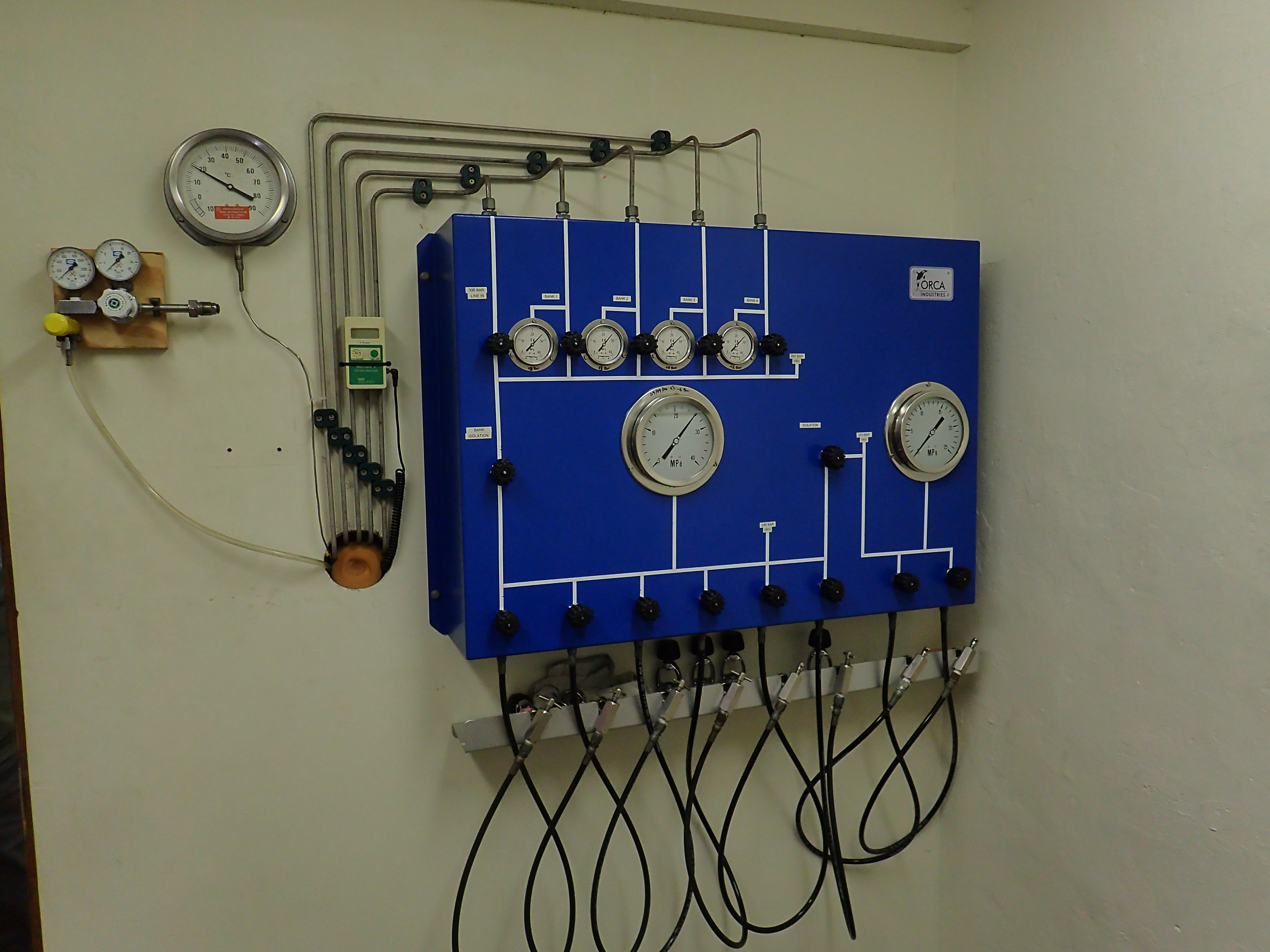 Breathing gas filling panel at Orca Industries